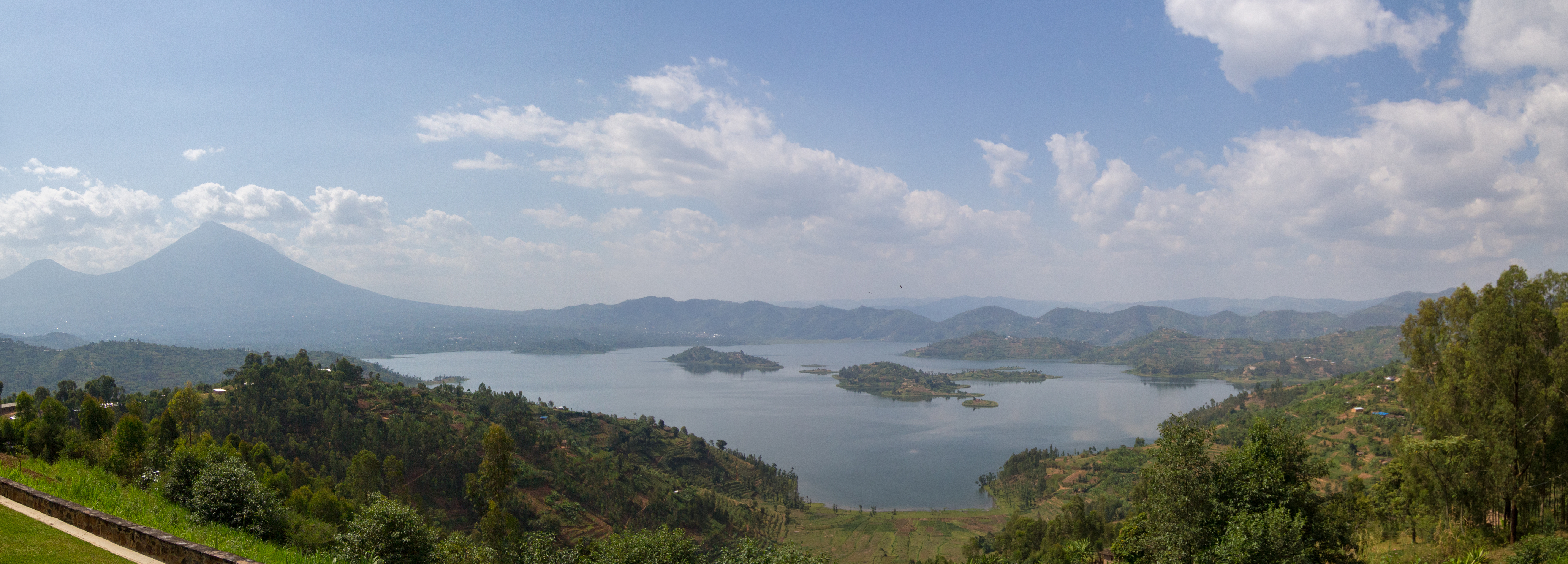 This is a panaromic of Lake Ruhundo in Northern Rwanda from 2015